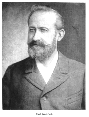 A portrait of Carl Hausknecht, a scientist in Weimar.